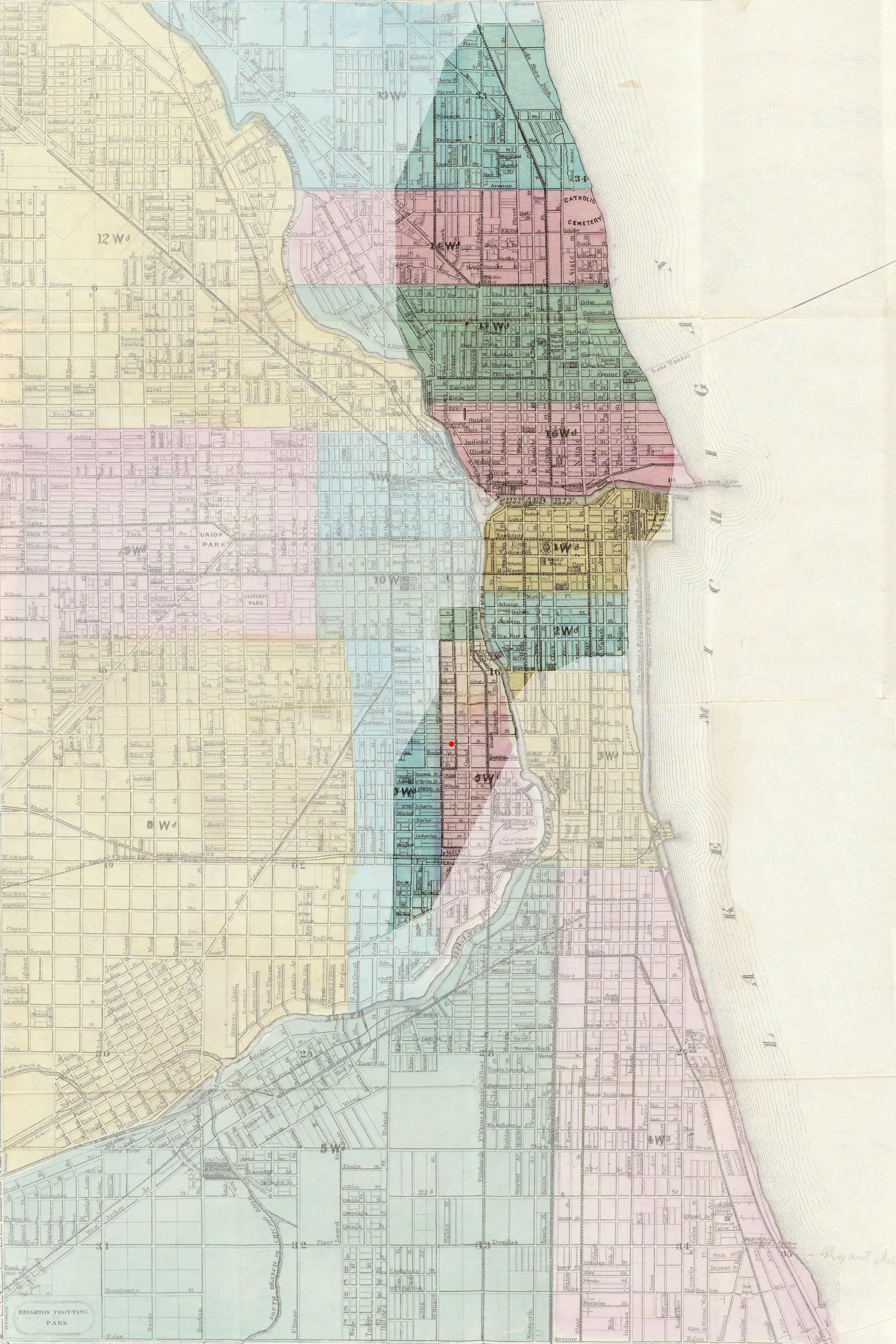 Map of Chicago, showing the burned area after the Great Chicago Fire in 1871, including the starting point of O'Leary's barn (red dot).